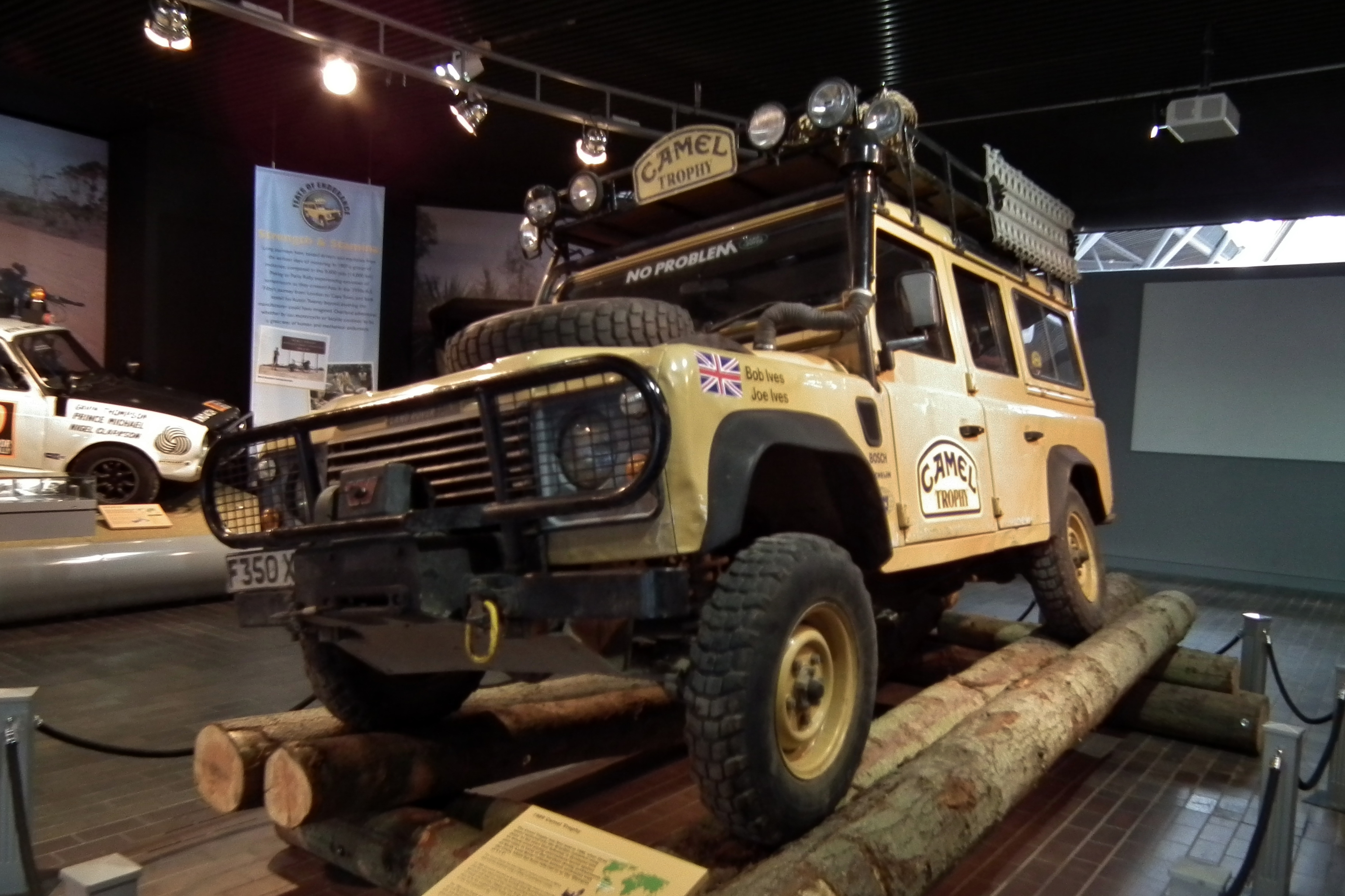 1989 Land Rover 110. Taken at the National Motor Museum in Beaulieu, Hampshire, England.